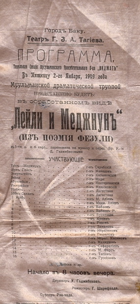 Program of "Leyli and Majnun" opera